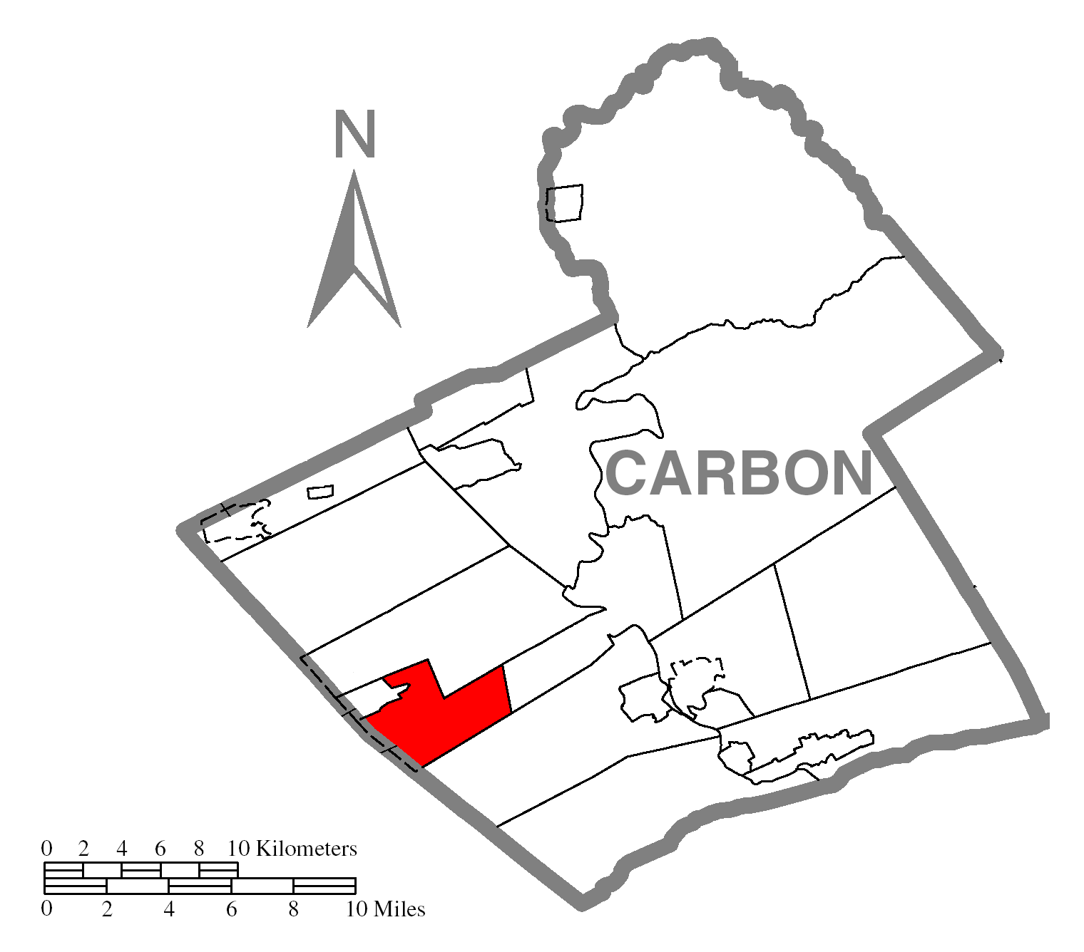 A map of Carbon County showing Summit Hill, Pennsylvania (alternate) highlighted on the map.